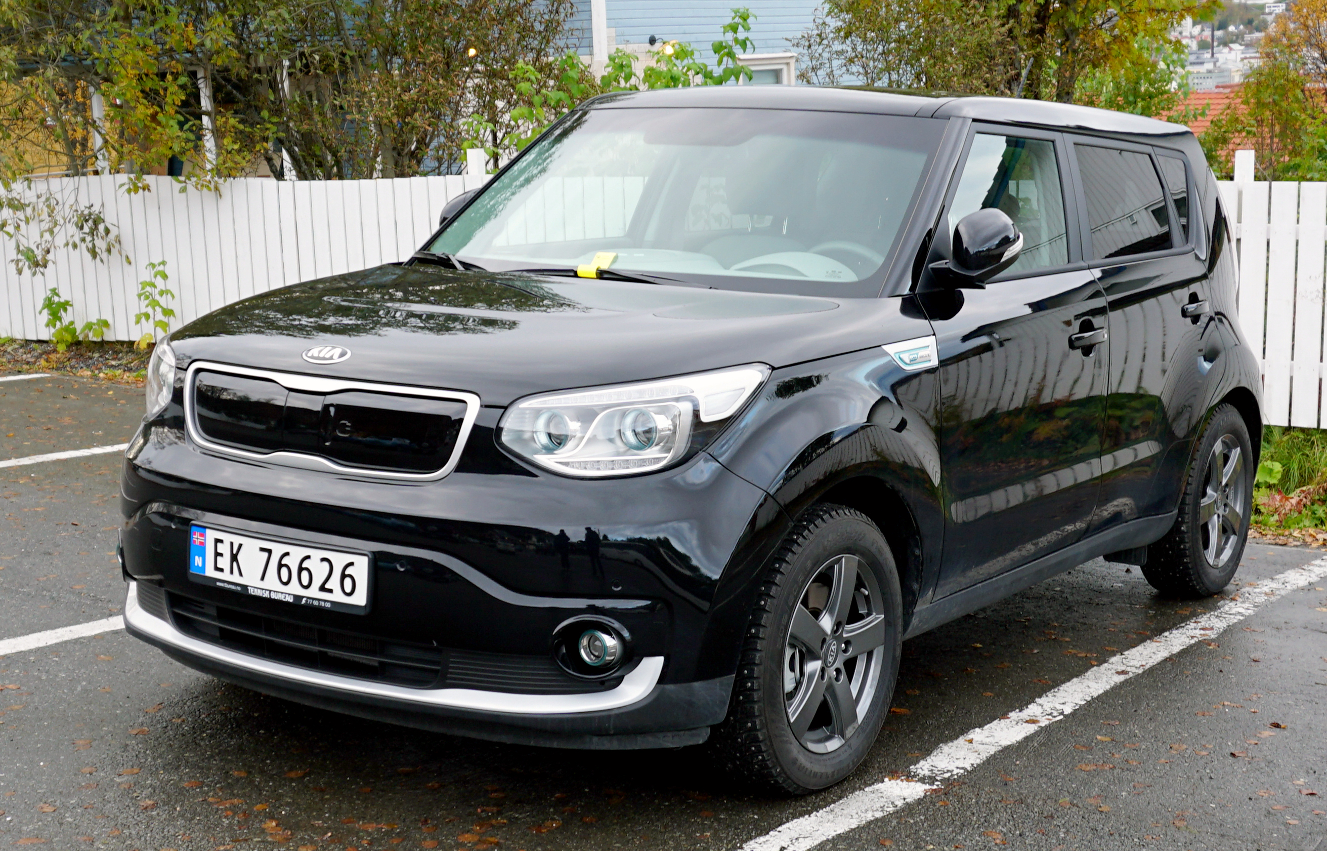 Kia Soul EV in Tromso, Norway.